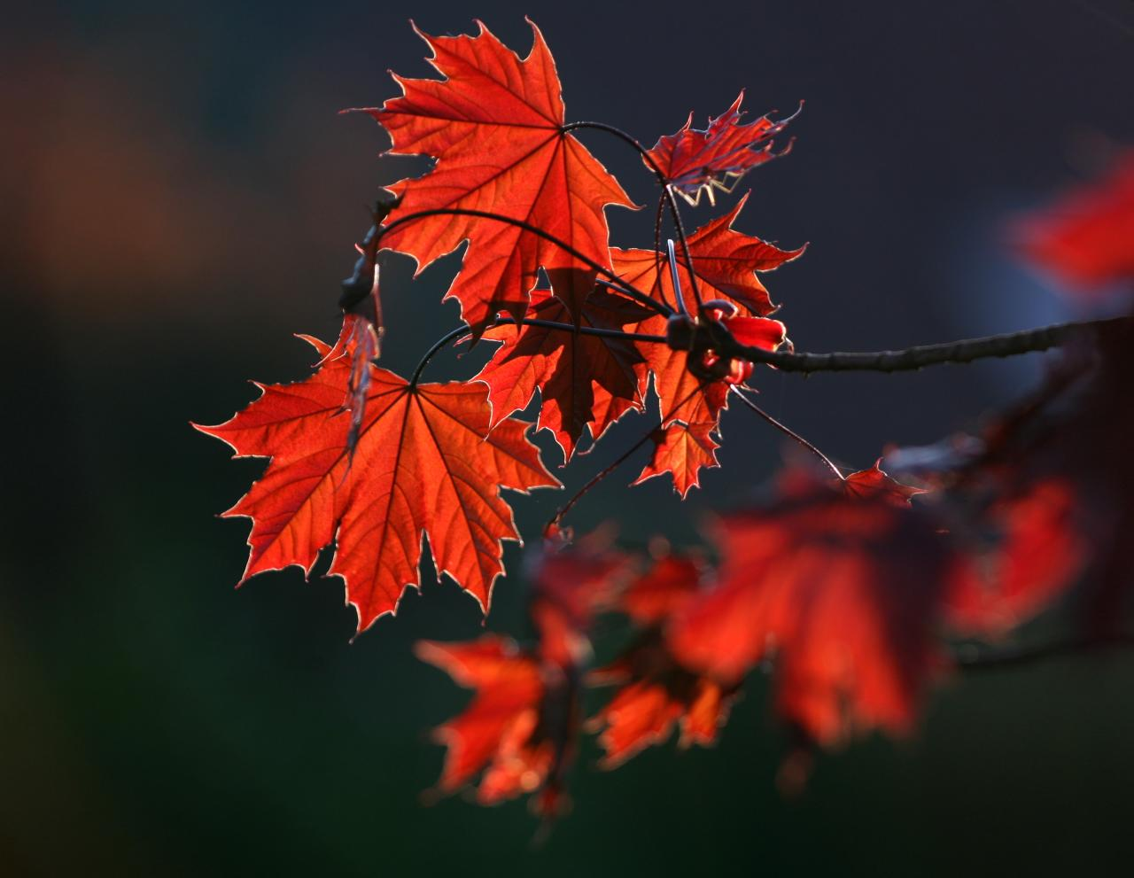 View On Black These are young leaves of a red maple (Acer), backlighted by the early evening sun. I also liked the bokeh at f3.5 of my lens, at that distance. Taken in my garden with just the contrast enhanced and a little bit of cropping. In Explore: The list of my "Explore" photos: By best score or presented on black